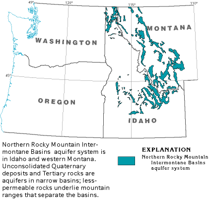 Map of the aquifers in this region. (USGS)